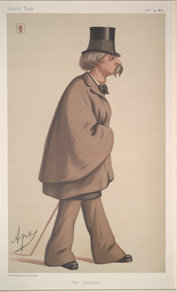 Statesmen No.192: Caricature of Sir WA Fraser Bt MP. Caption reads: "The Sanitary"